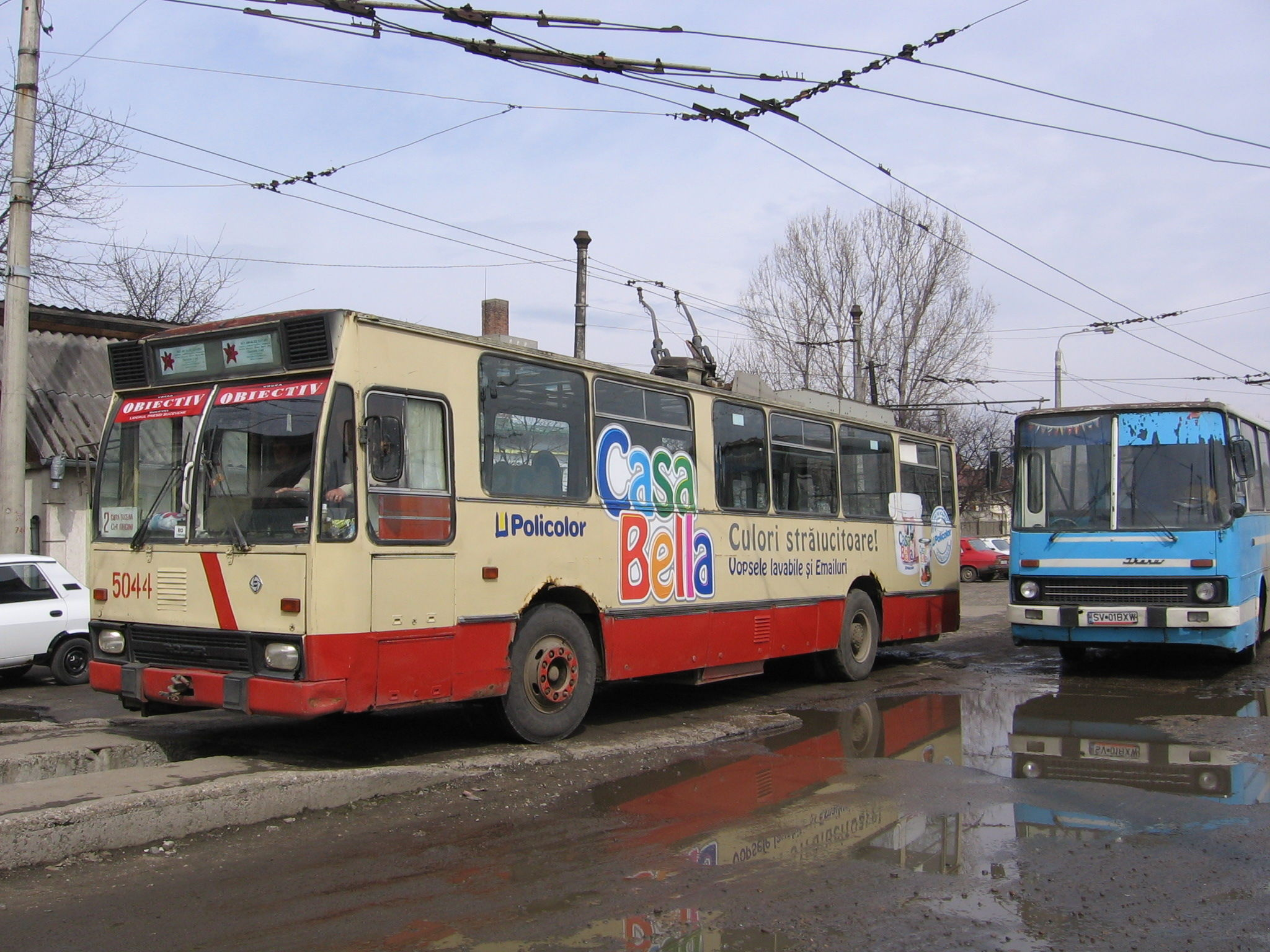 Trolleybus 5044 in Suceava (Rocar 212E type).